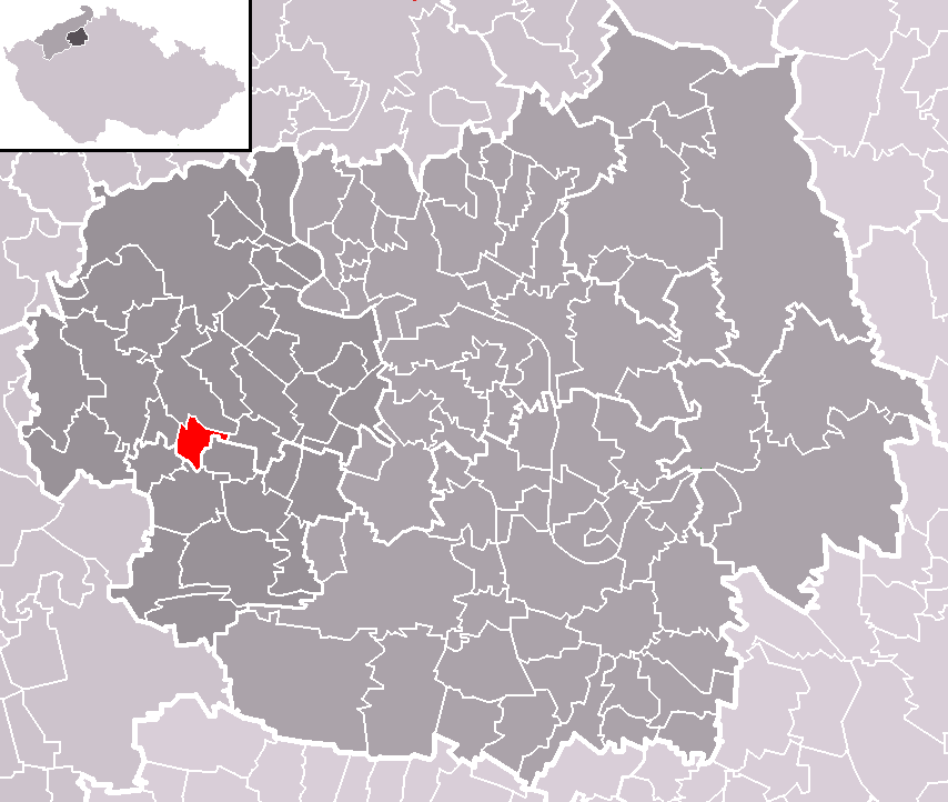 Location of Chodovlice municipality within Litoměřice District and administrative area of Lovosice as a Municipality with Extended Competence.